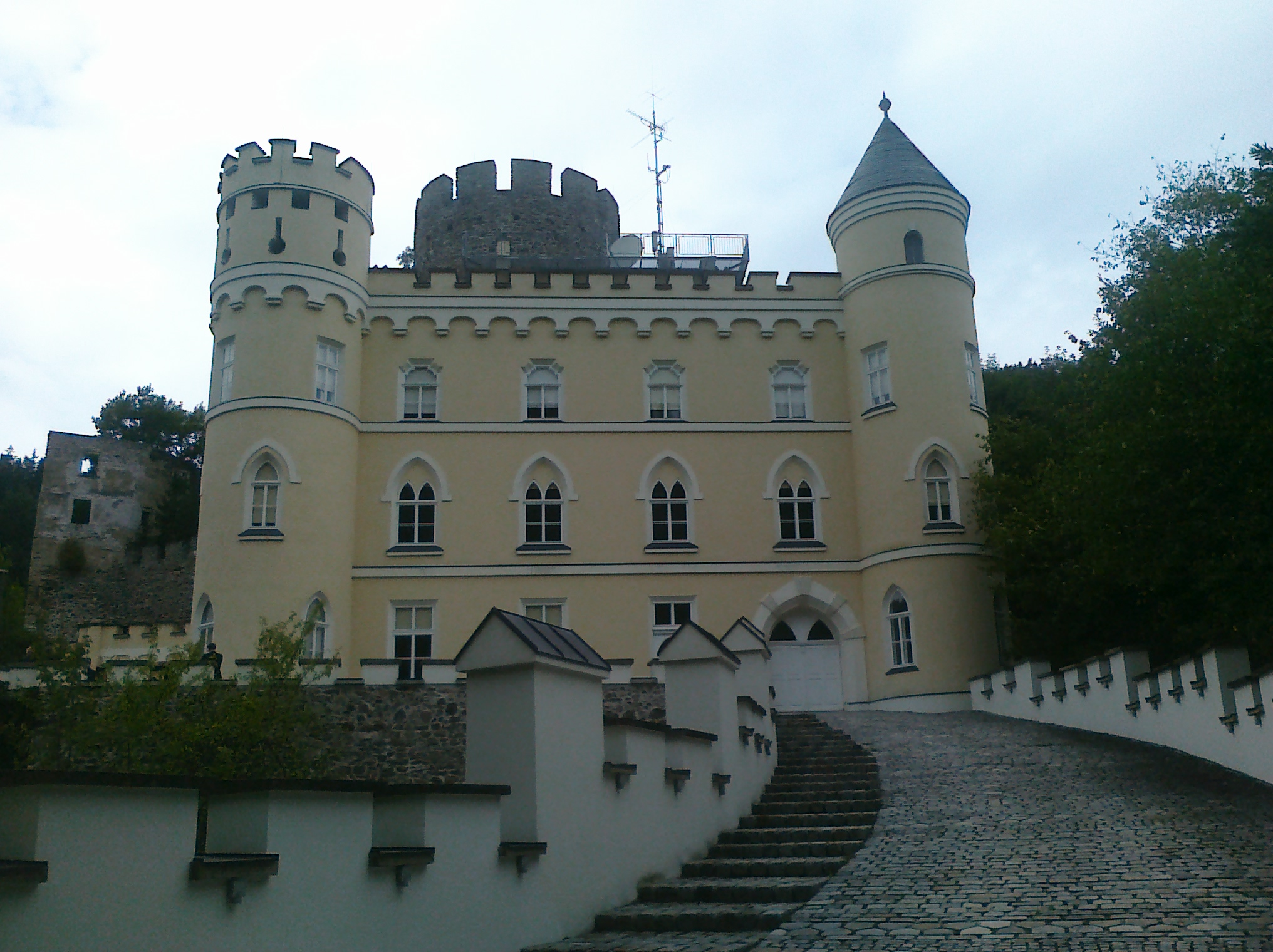 View of Castle Hartenstein (Lower Austria / Nöhagen) from entrance.